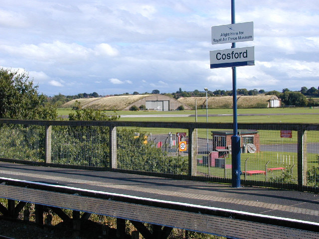 Cosford station with airfield and hangars